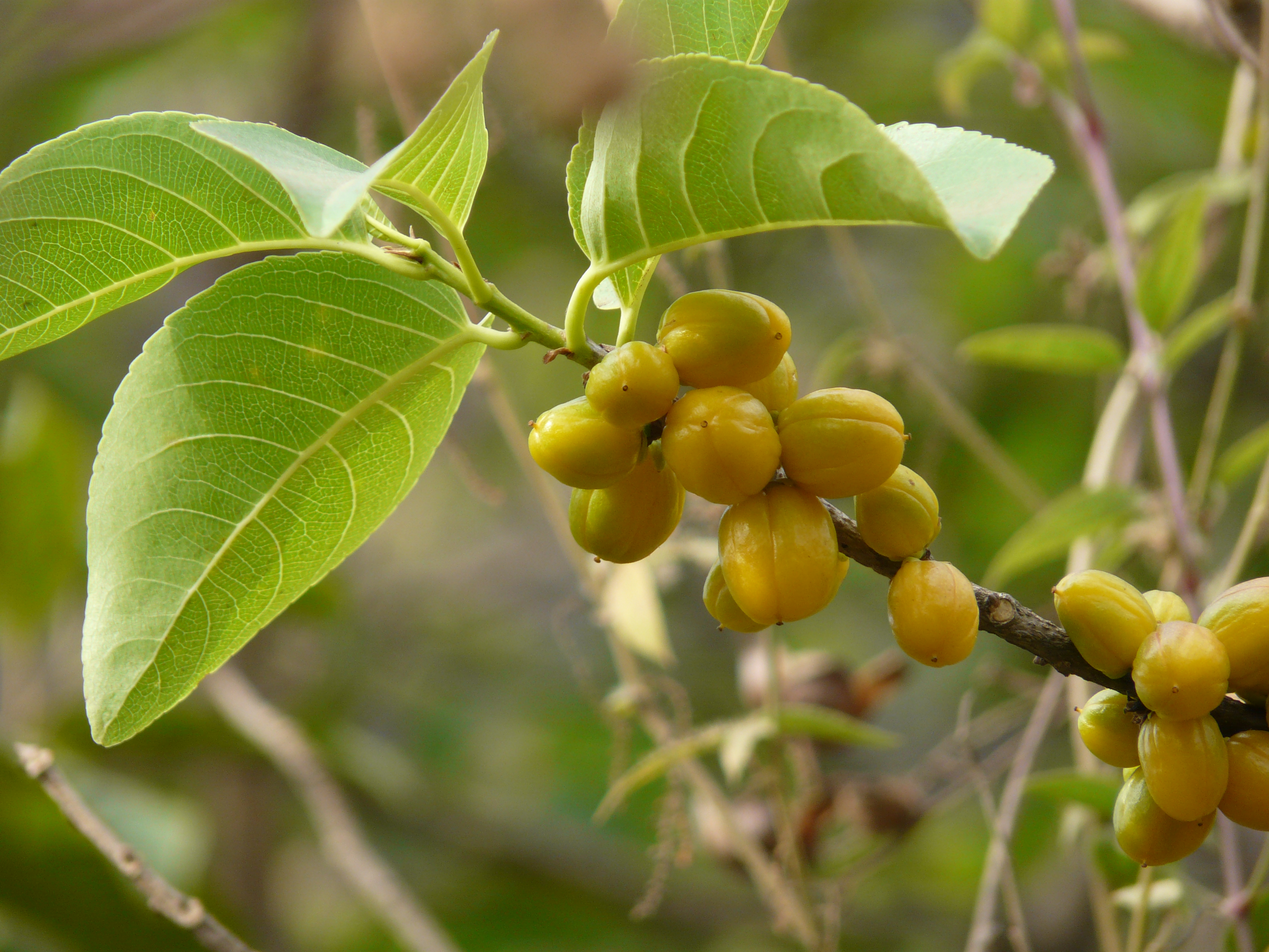 Flacourtiaceae (coffee plum family) » Casearia graveolens ¿ kay-SIR-ee-uh ? -- named for Johannes Casearius, minister of the Dutch East India Co. grav-ee-OH-lens -- heavy scented, unpleasant smell commonly known as: chilla • Gujarati: કીરામ્બીરા kirambira • Hindi: छिल्ला chilla, गिलची gilchi • Konkani: पिंपरी pimpari • Marathi: बोखाडा bokhada, पांढरी कराई pandhari karai • Nepalese: sano dedri • Oriya: mando Native of:India, s China, Bangladesh, Bhutan, Nepal, Indo-China References: Flowers of India • Flora of China • NPGS / GRIN • DDSA